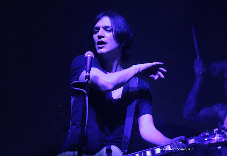 Brian Molko playing with Placebo in Bologna 29/11/09